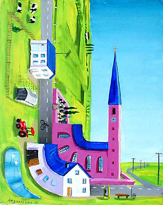 "Curvature", 1984, painting by Peter Angermann